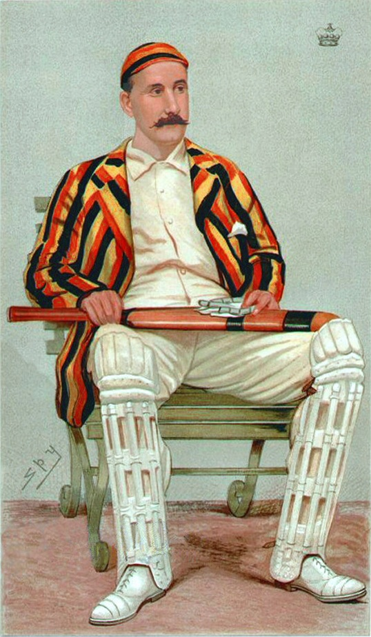 Caricature of Martin Hawke, 7th Baron Hawke. Caption read "Yorkshire Cricket".